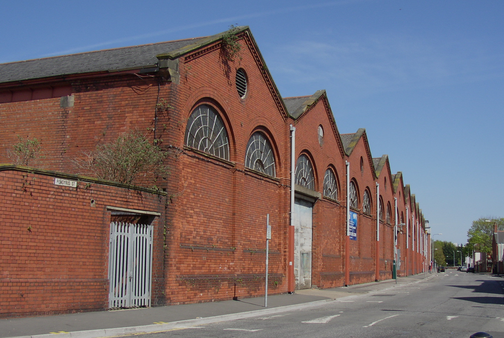 Former Cardiff Tram Depot